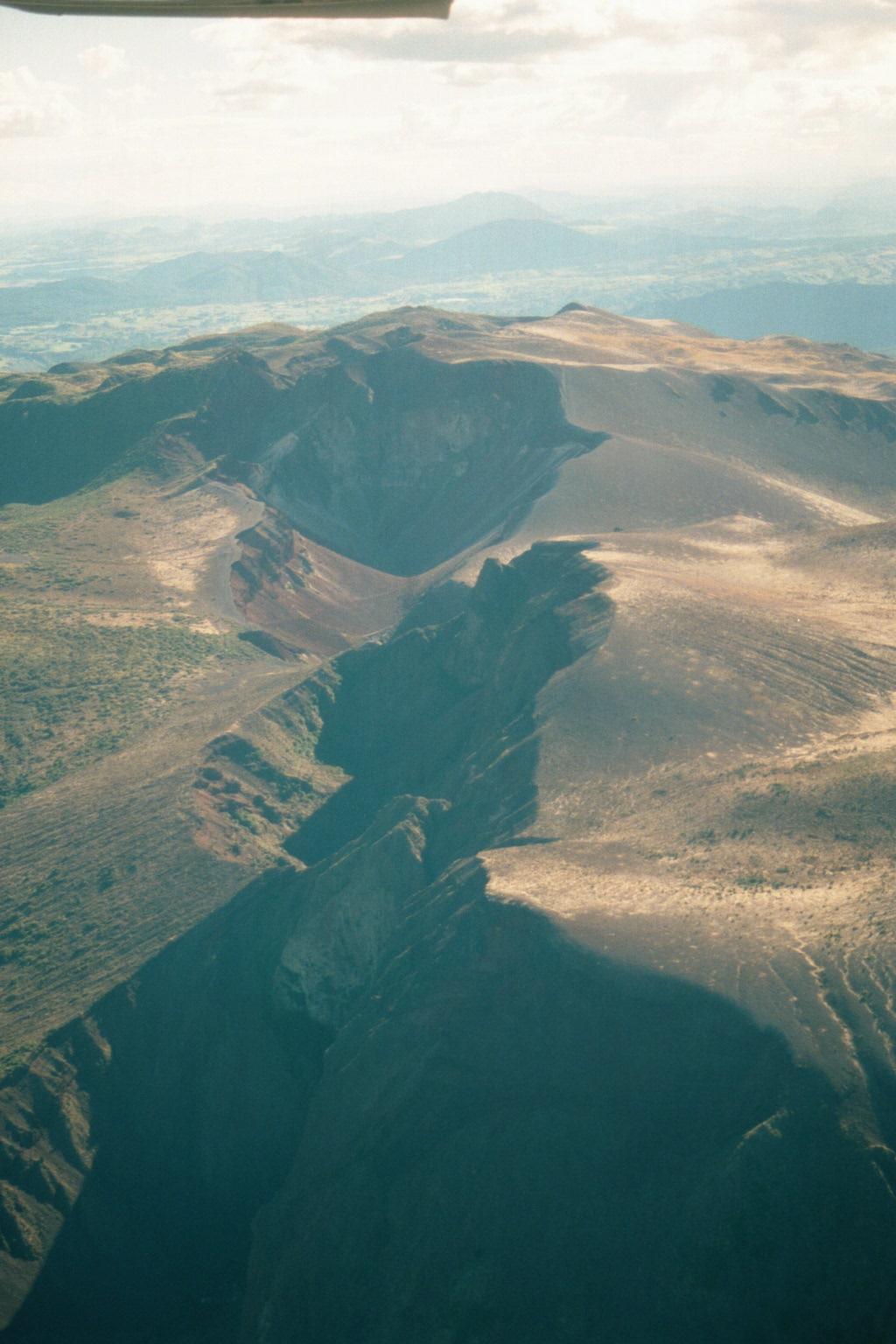 Series of craters on the north side of Mount Tarawera, Bay of Plenty region, North Island, New Zealand. Taken during a seaplane ride out of nearby Rotorua.